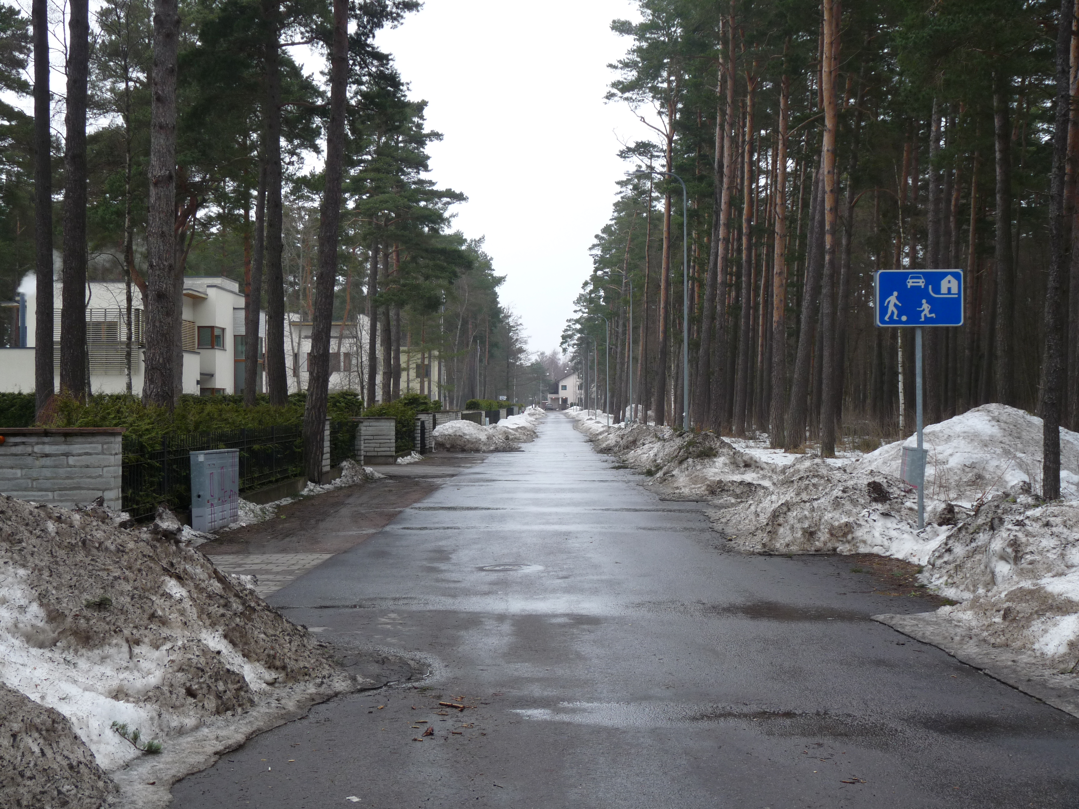 Kuusenõmme street